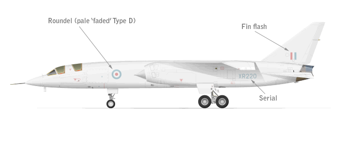 An annotated version of an original image created by User Emoscopes